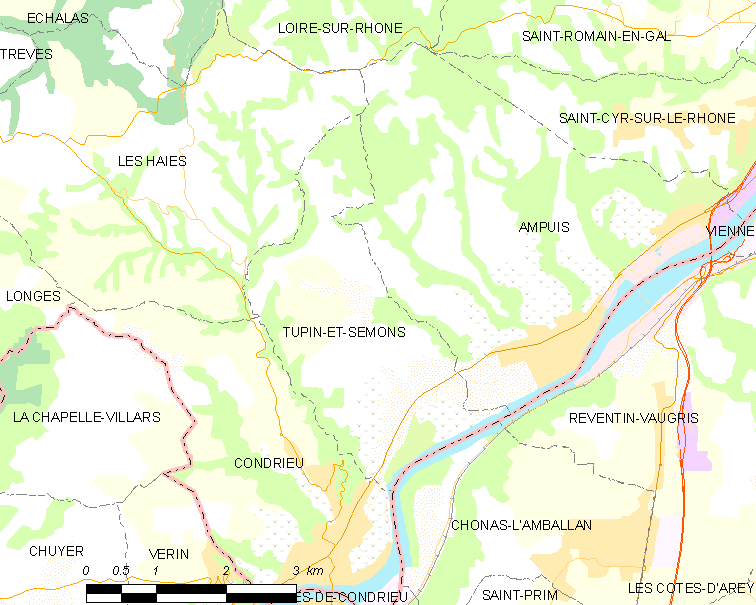 Map of French municipality